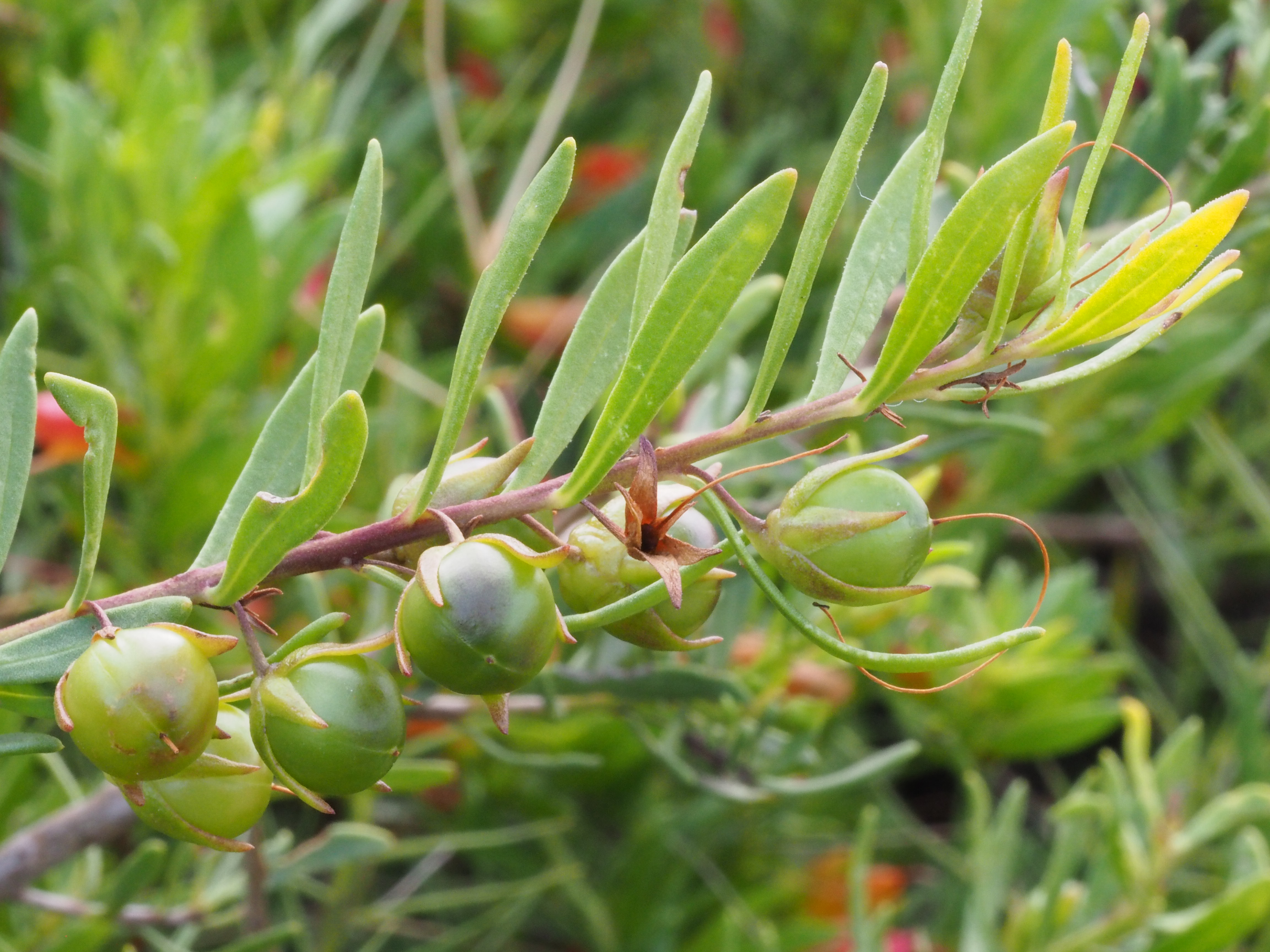 Eremophila glabra carnosa growing in Port Gregory